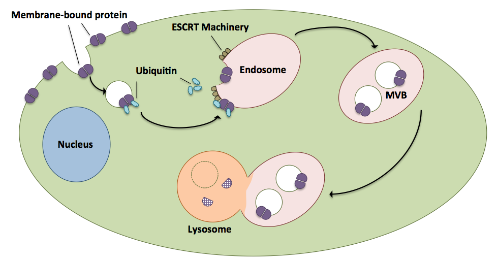 Adapted from Oliver Schmidt & David Teis, The ESCRT Machinery, Curr Biol. 2012 February 21; 22(4): R116–R120 with permission of author